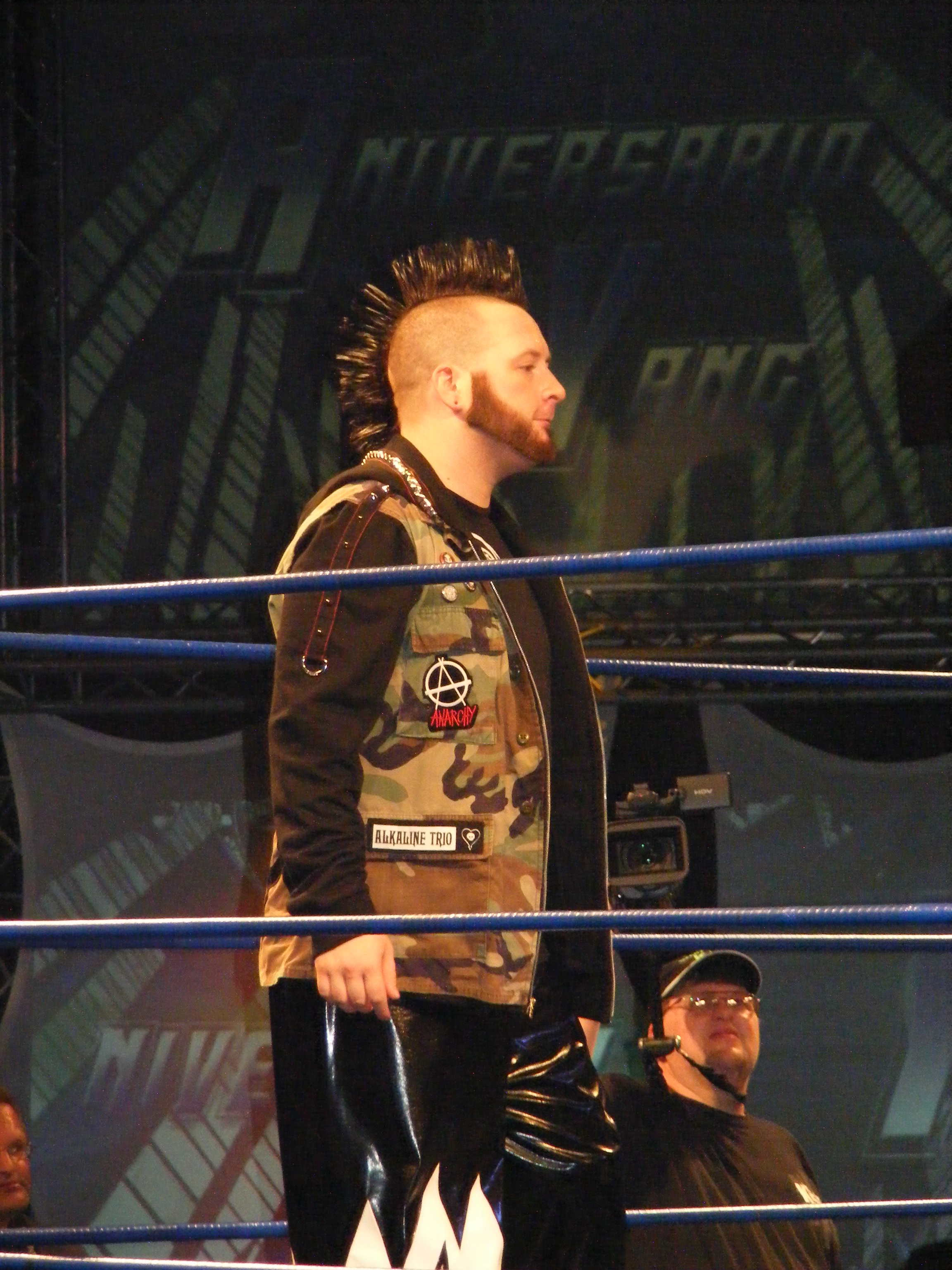 Professional wrestler Arik Cannon at Chikara show in May 2009